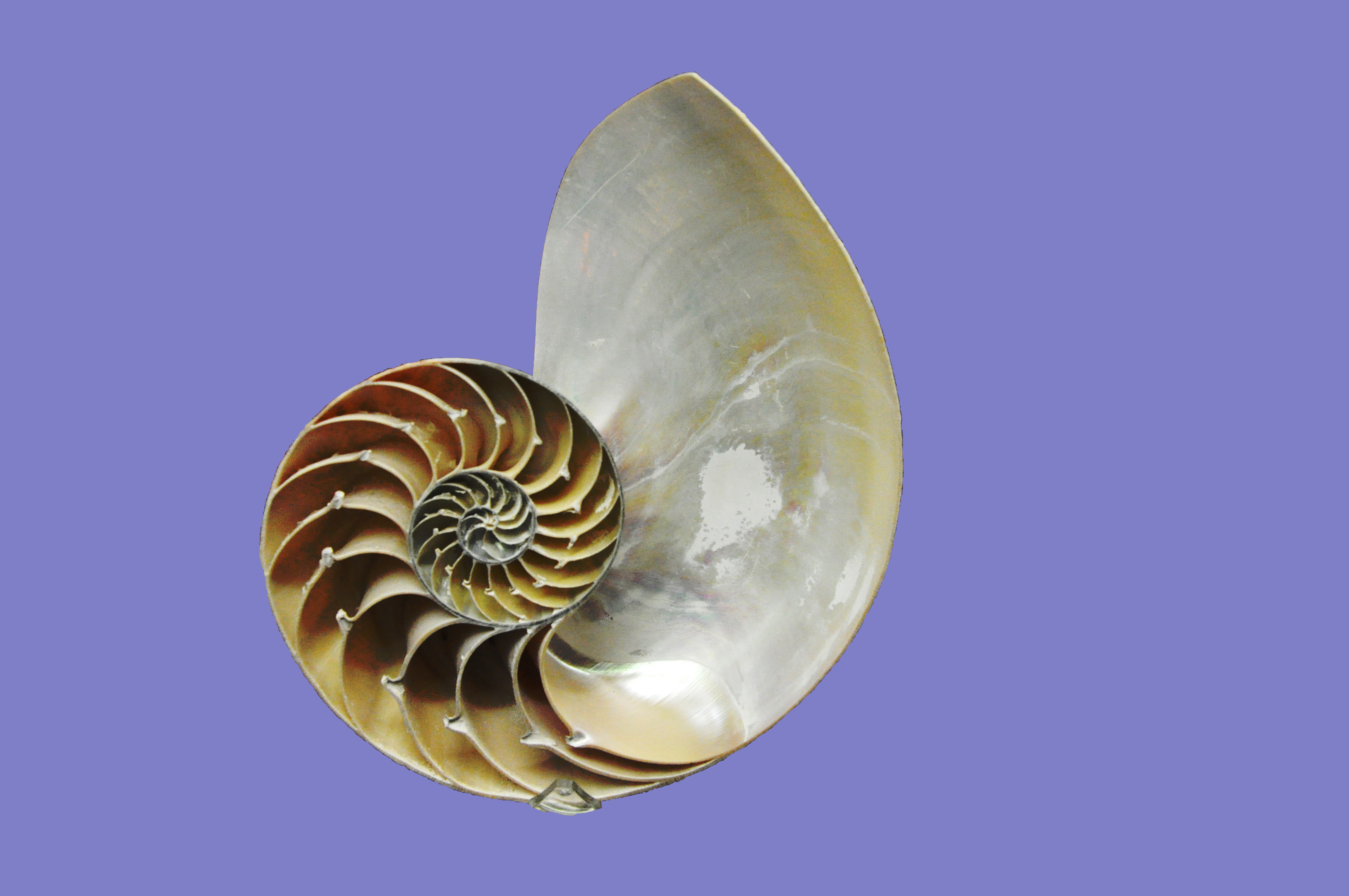 2013, musée du coquillage, Saint-Malo (France, Brittany), blue background added.